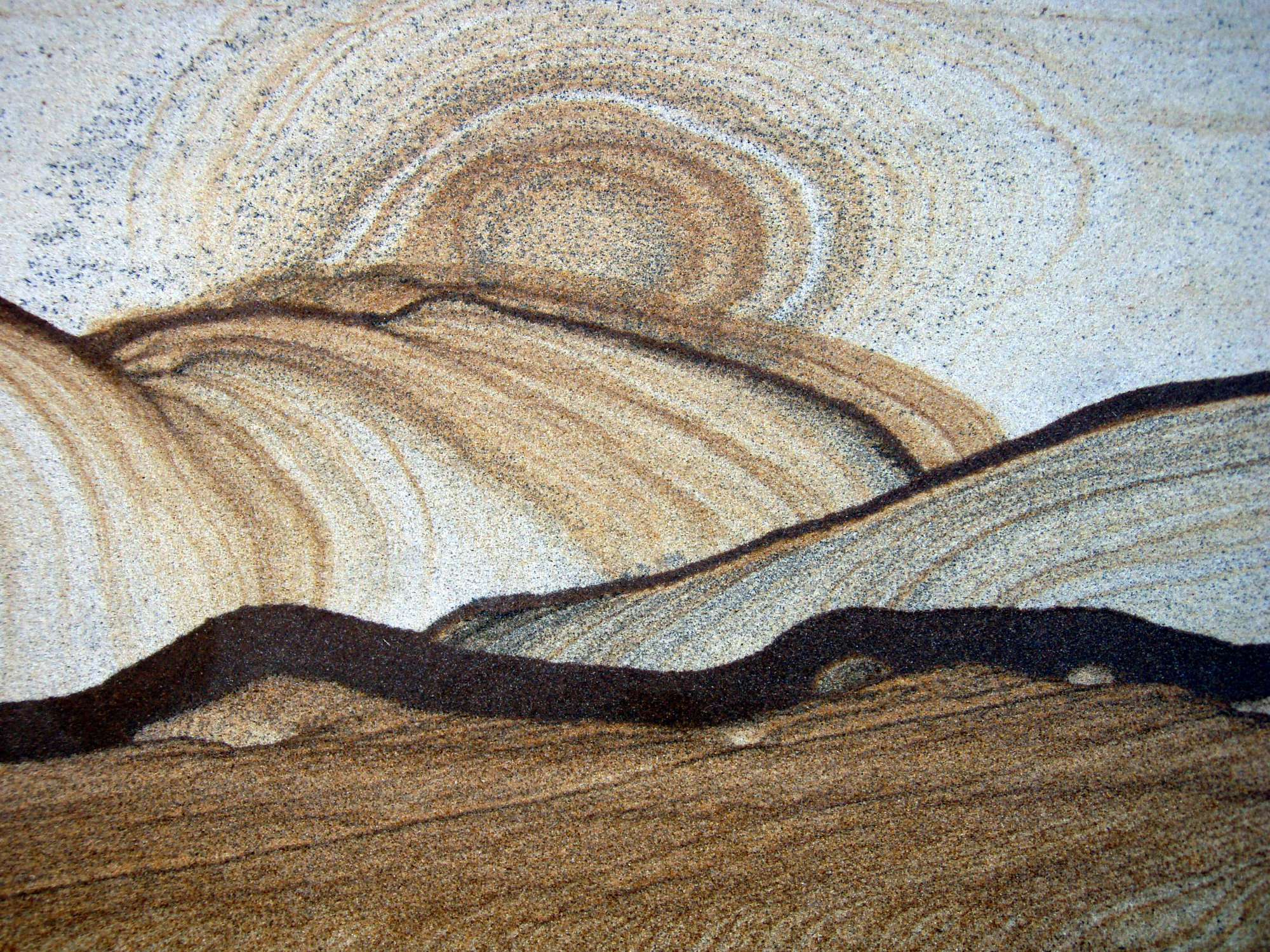 Picture sandstone is created by wind and water and gets its coloring from iron oxide.It is 120-million-year-old